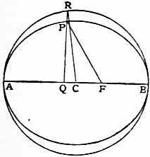 Illustration from 1911 Encyclopædia Britannica, article Anomaly. Let AB be the major axis of the orbit, B the pericentre, F the focus or centre of motion, P the position of the body. The anomaly is then the angle BFP which the radius vector makes with the major axis. This is the actual or true anomaly. Mean anomaly is the anomaly which the body would have if it moved from the pericentre around F with a uniform angular motion such that its revolution would be completed in its actual time. Eccentric anomaly is defined thus:—Draw the circumscribing circle of the elliptic orbit around the centre C of the orbit. Drop the perpendicular RPQ through P, the position of the planet, upon the major axis. Join CR; the angle CRQ is then the eccentric anomaly.